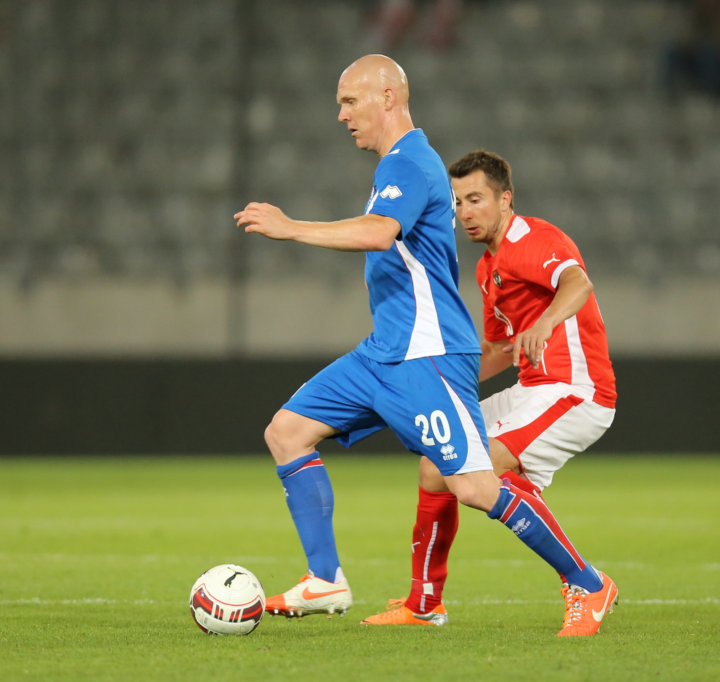 Austria - Iceland football match in Innsbruck, Austria on 2014-05-30. Austria in red, Iceland in blue.